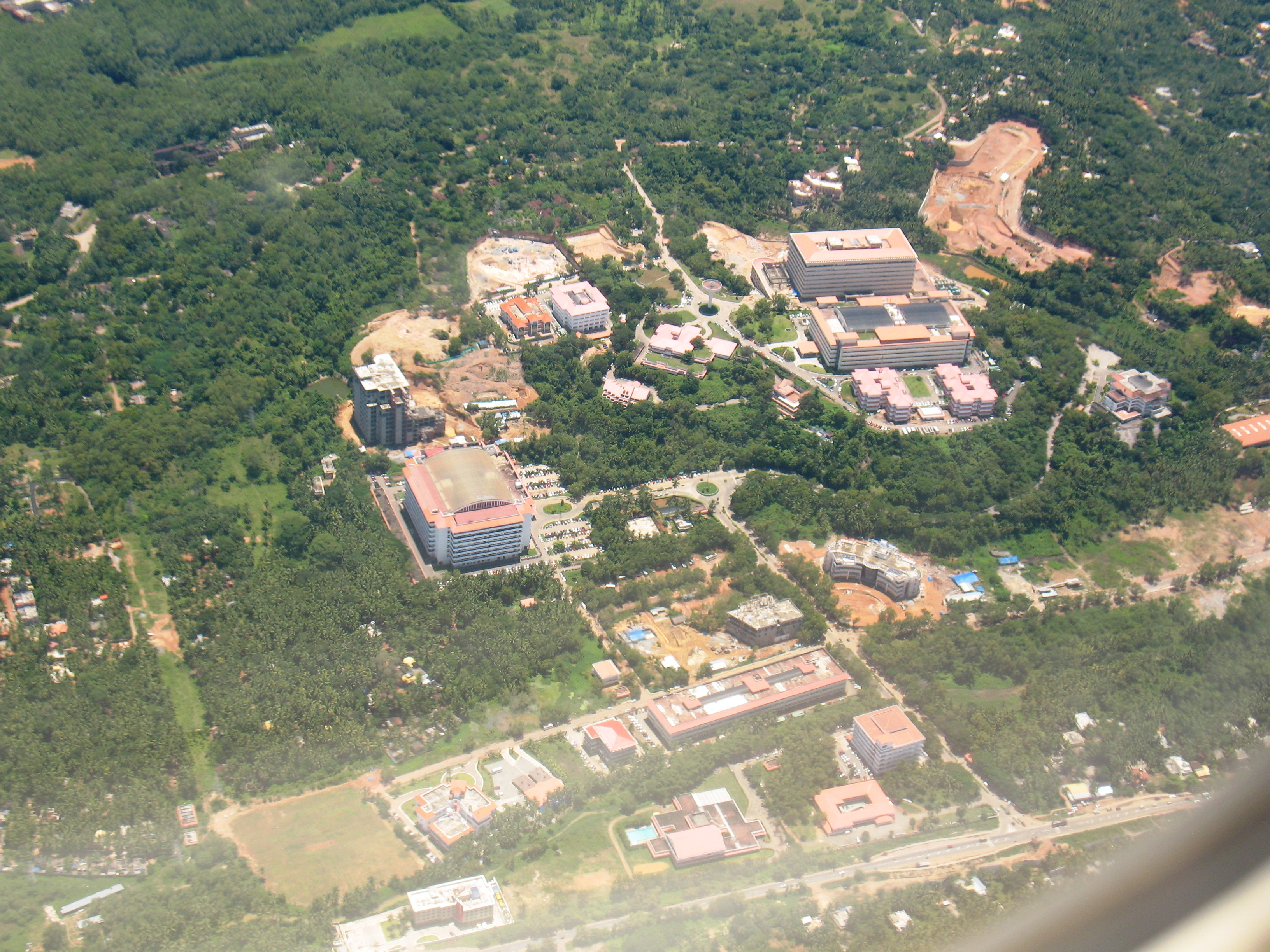 "Aerial view of Technopark Phase I, Trivandrum, India"